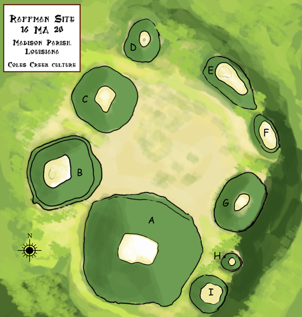 A map depicting the arrangement of platform mounds at the Raffman Mound Site, a Coles Creek site in Madison Parish, Louisiana